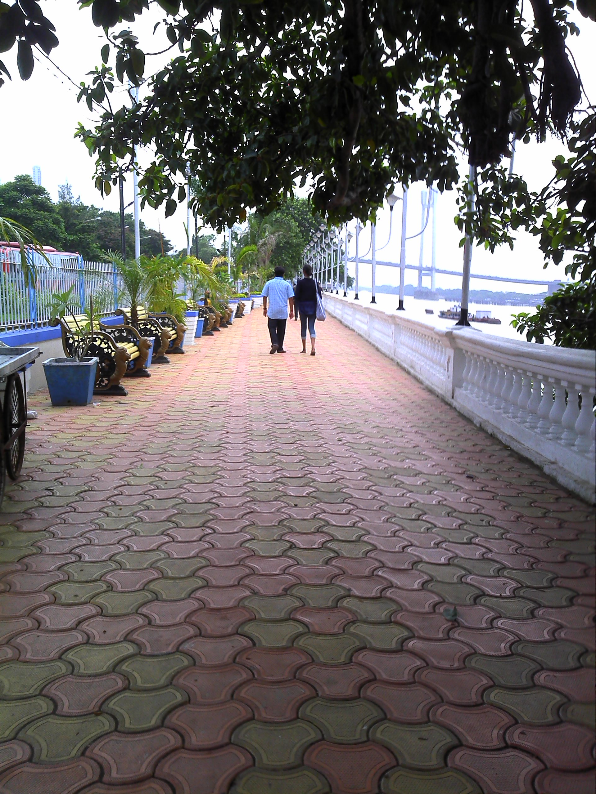 Walkway in Kolkata Riverfront Beautification Project Phase 1